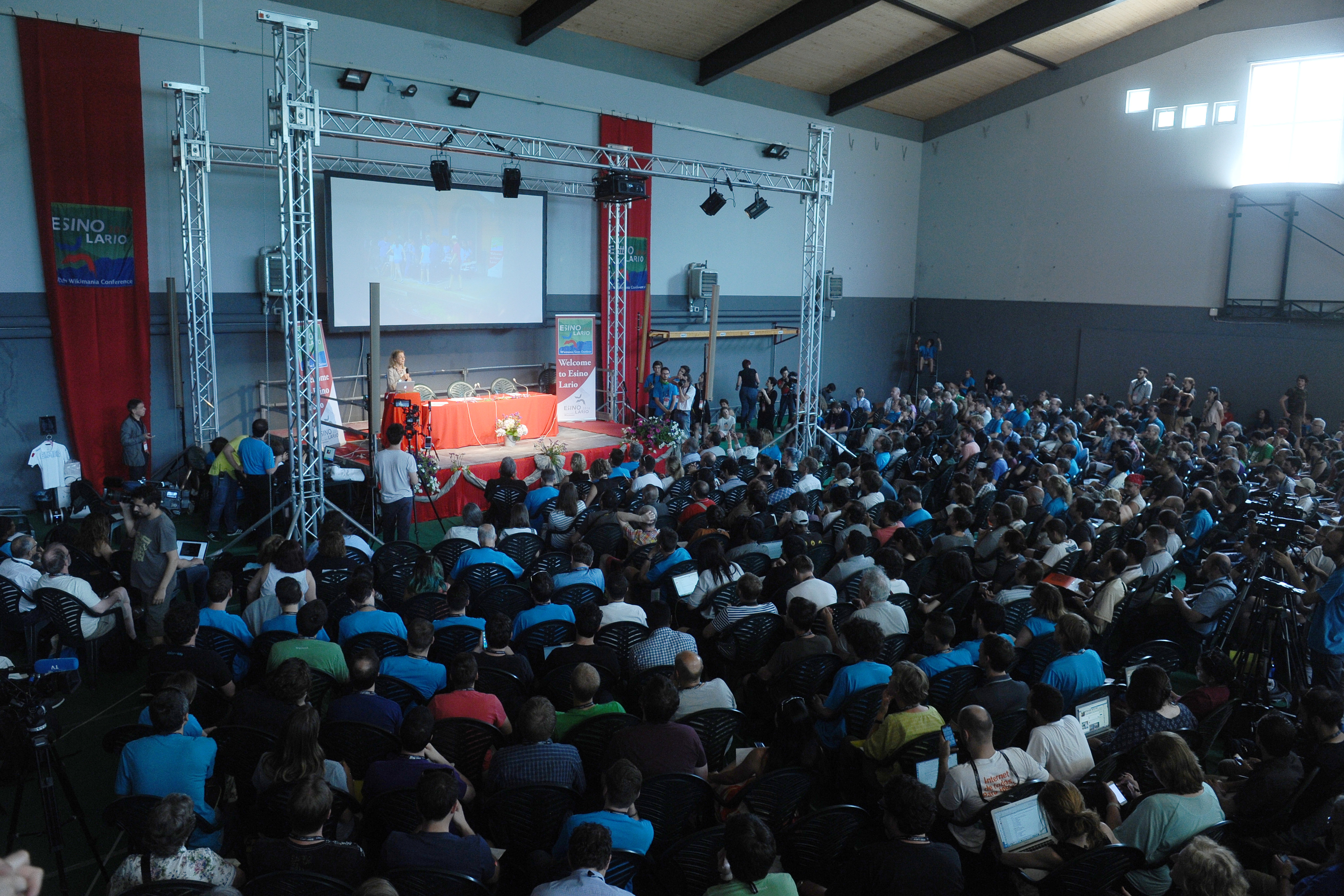 Wikimania 2016 - Catherine De Senarclens talking about the impact of Wikimania on Esino Lario